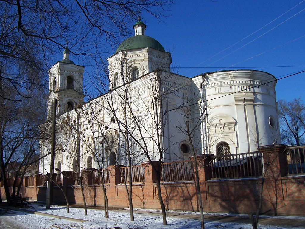 Catholic church (1778). The Astrakhan church was the third on time of the basis a Catholic temple in Russia (after Petersburg and Moscow).